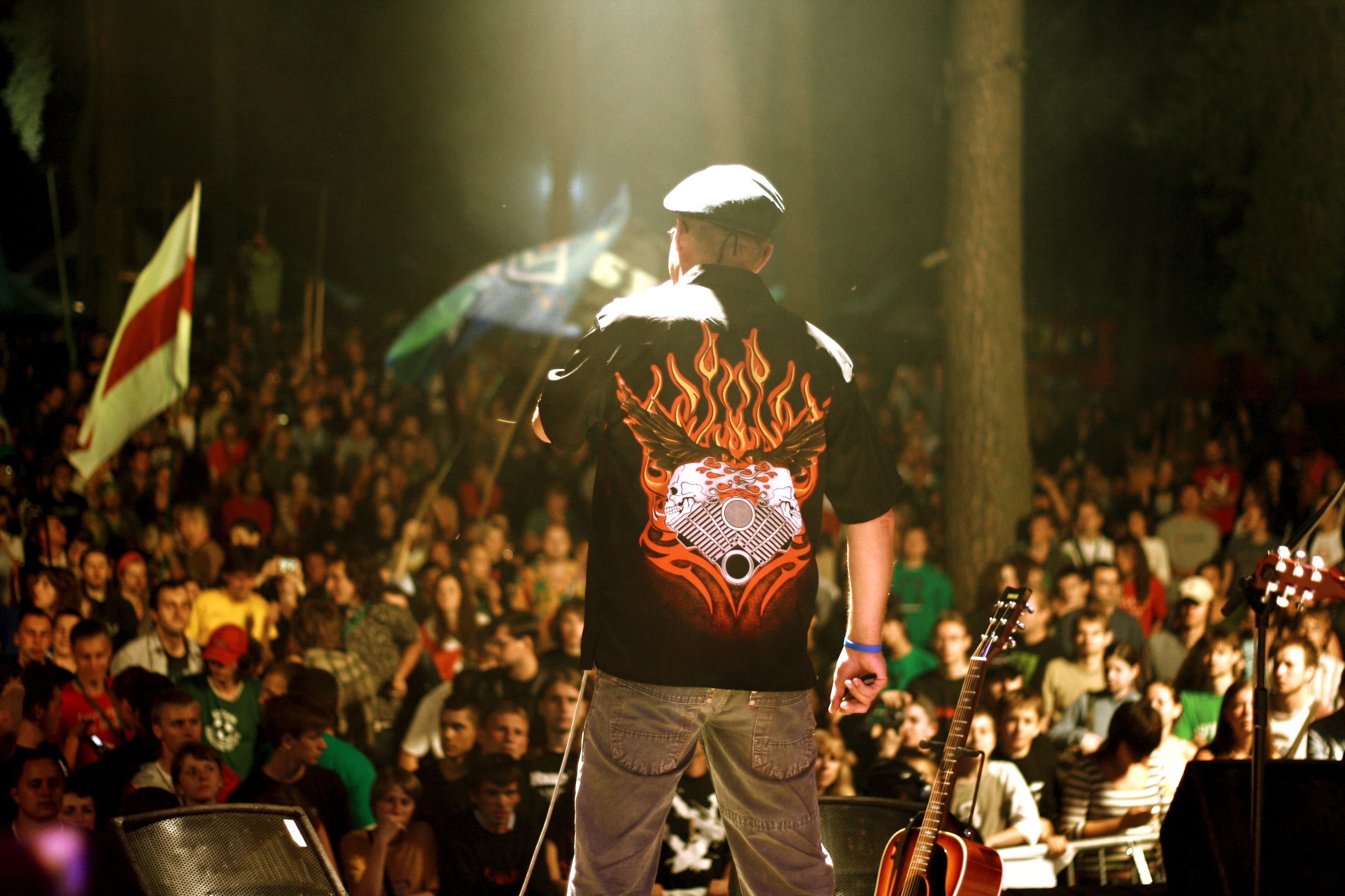 Belarusian band Krama at the fest "Basovišča-2007", Grodek, Poland. 20.07.2007